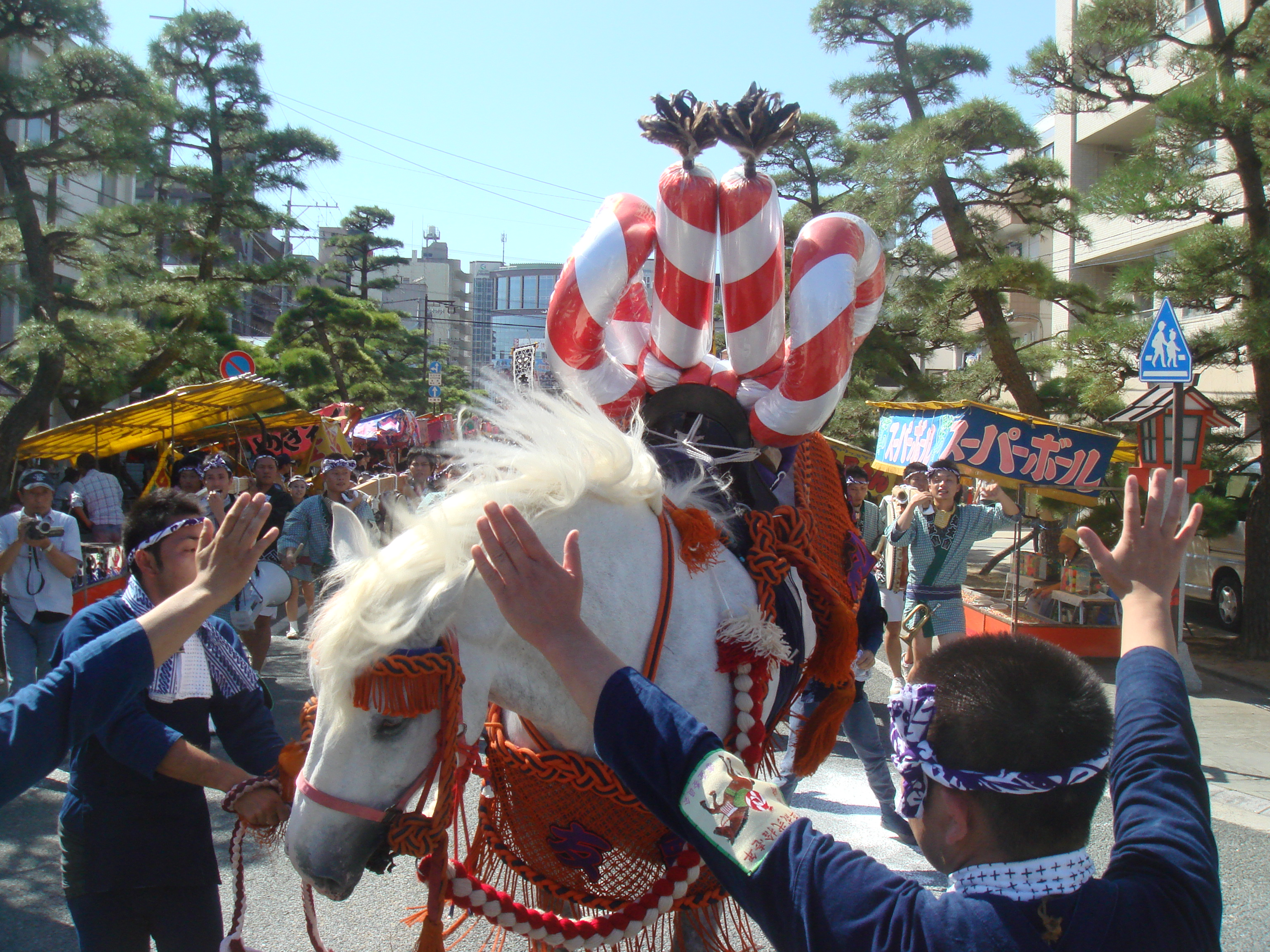 Fujisaki-hachimangu Shrine Grand Festival in 2009 - Kazari-oroshi